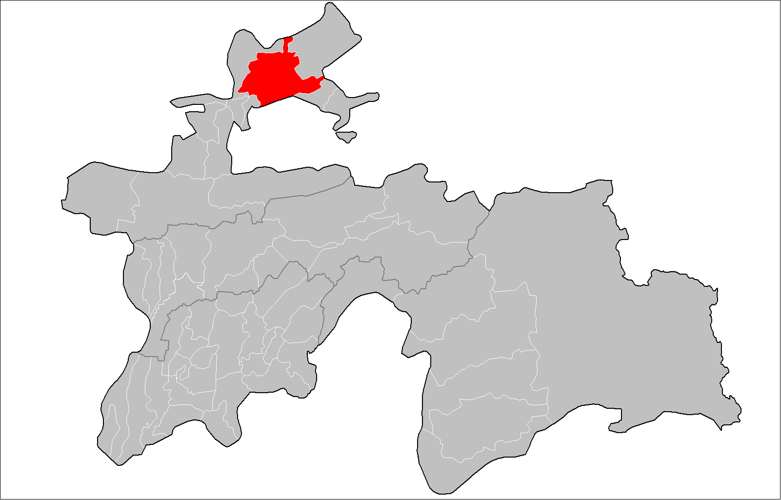 Location of Bobojon Ghafurov District in Tajikistan